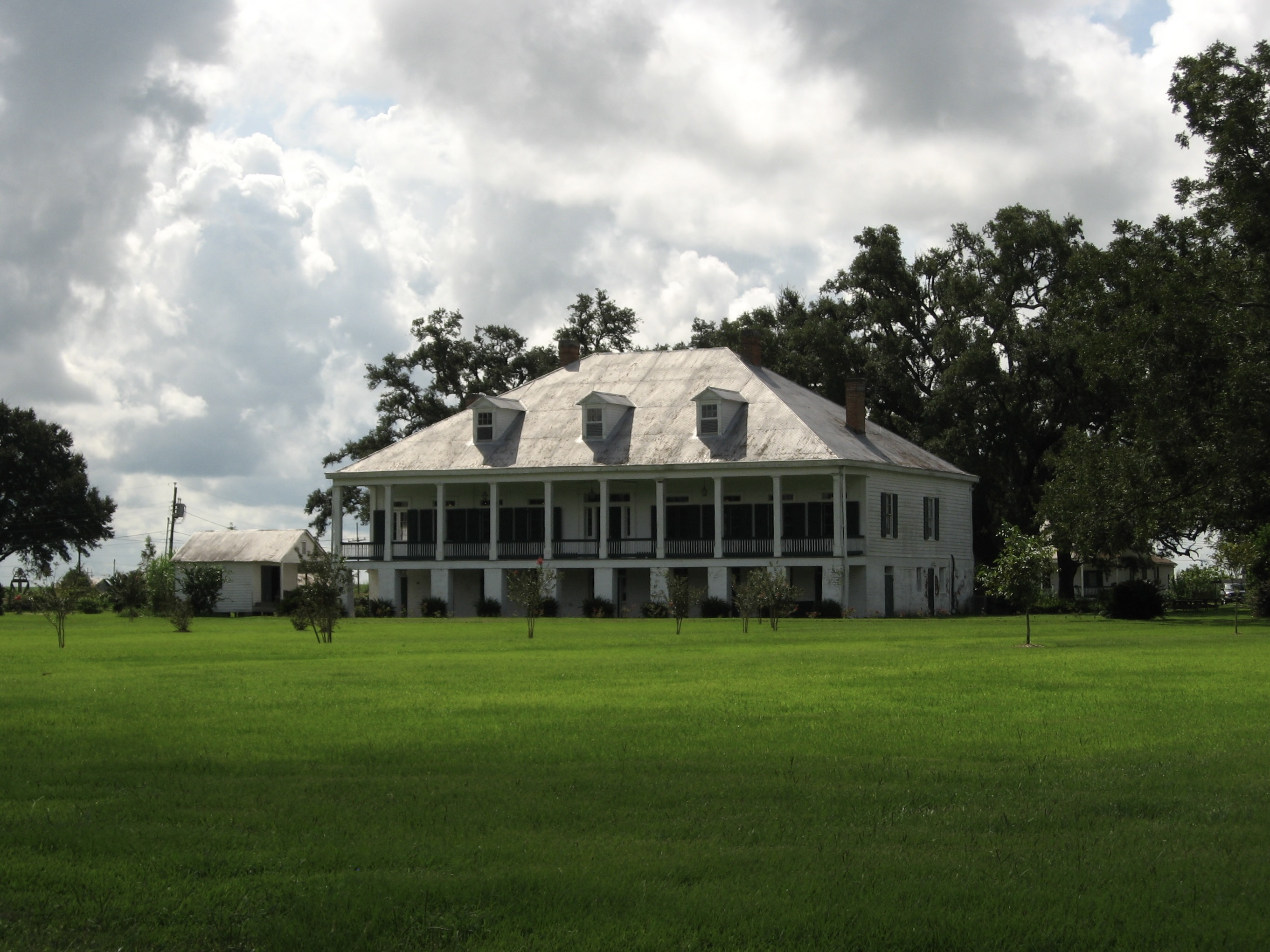 St. Joseph Plantation is an historic plantation located on the west bank of the Mississippi River in the town of Vacherie, St. James Parish, Louisiana, United States of America. It is listed on the National Register of Historic Places. St. Joseph Plantation is located at 3535 Hwy 18 Vacherie, LA 70090, adjacent to Oak Alley Plantation and up-river from Laura Plantation.